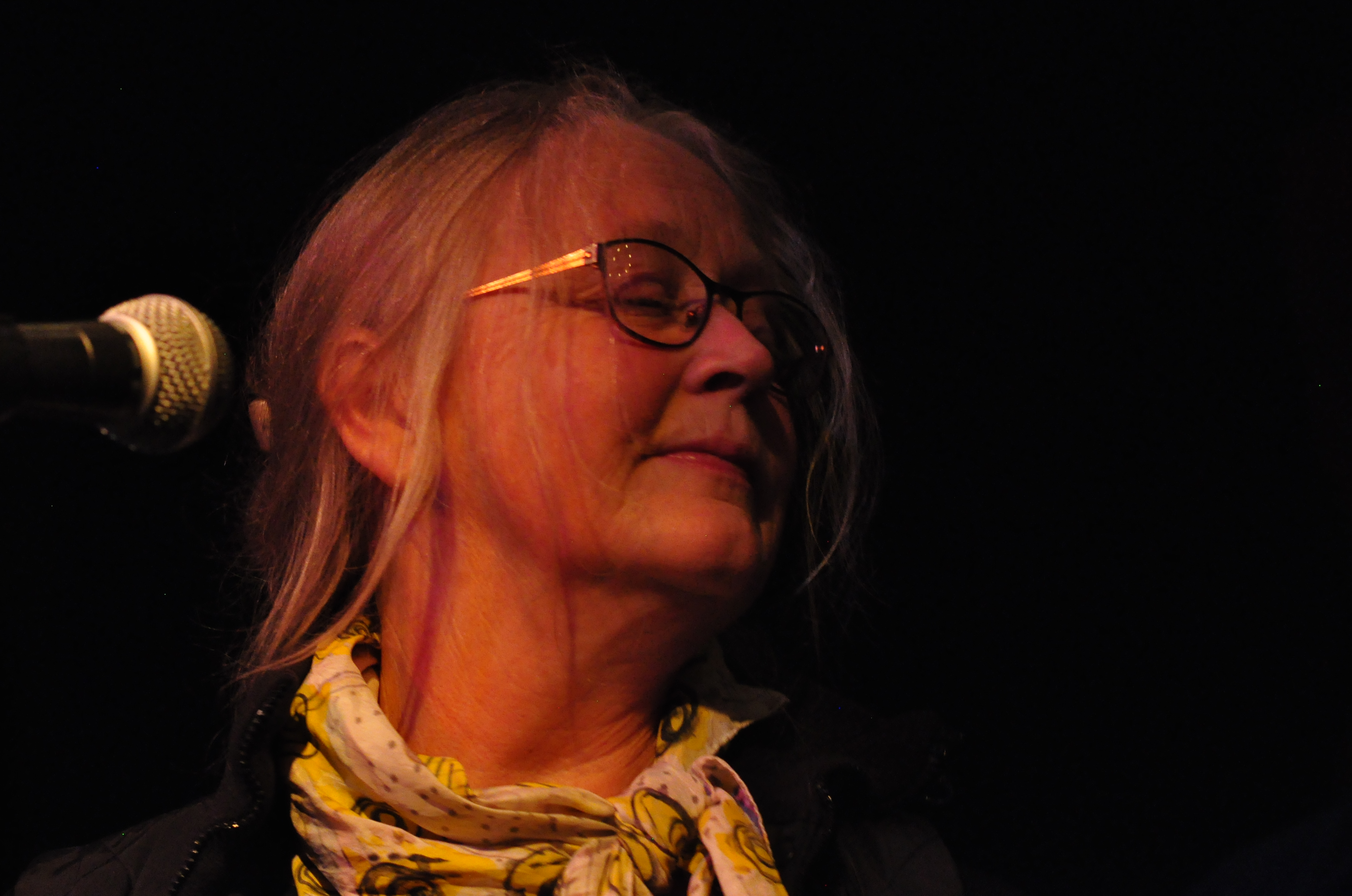 Robin Holcomb singing with Wayne Horvitz's Pigpen (not shown) at the OK Hotel Family Reunion, Royal Room, Columbia City, Seattle, Washington Sunday night, February 28, 2016.